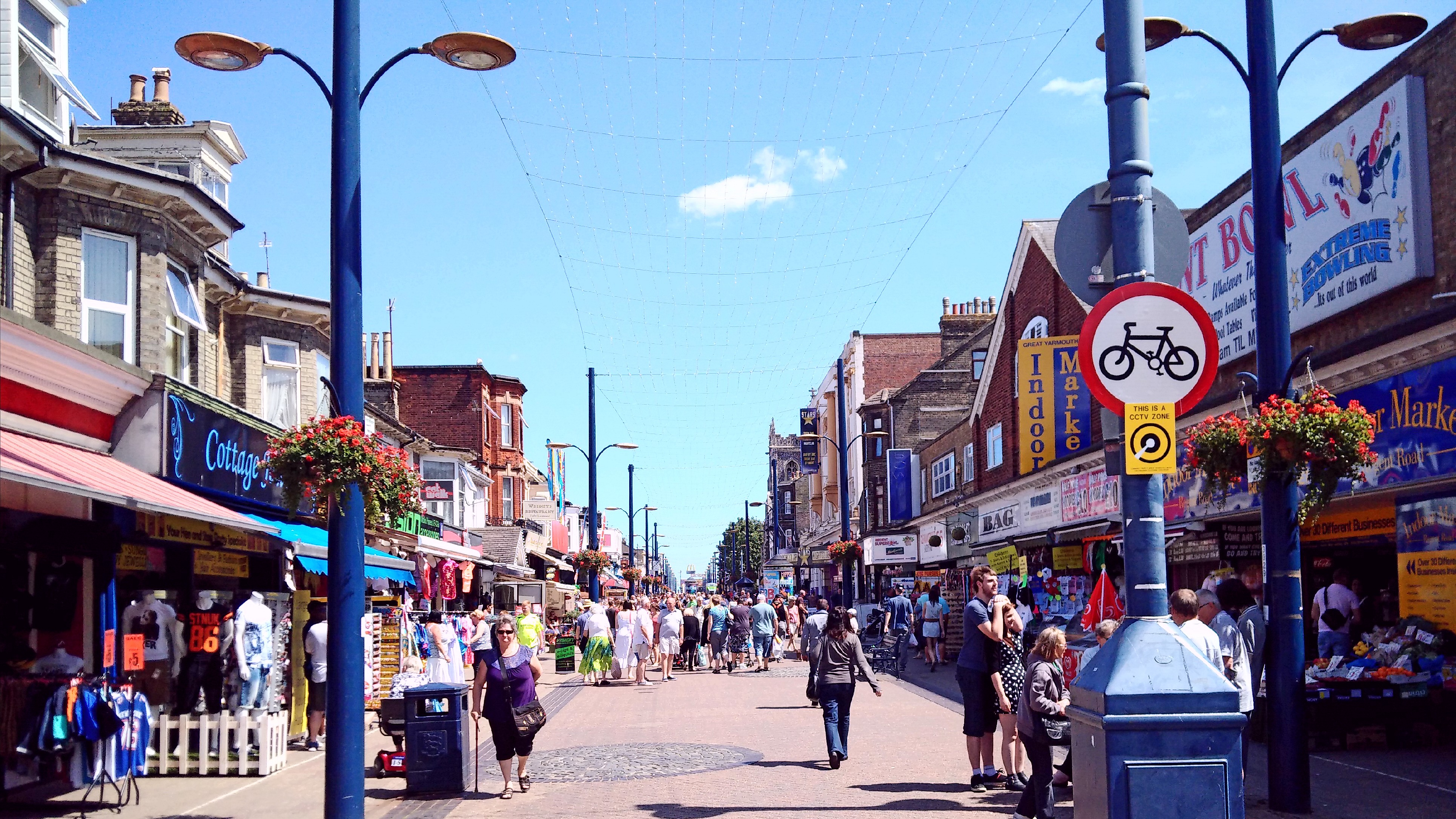 Regent Road in Great Yarmouth (2015)